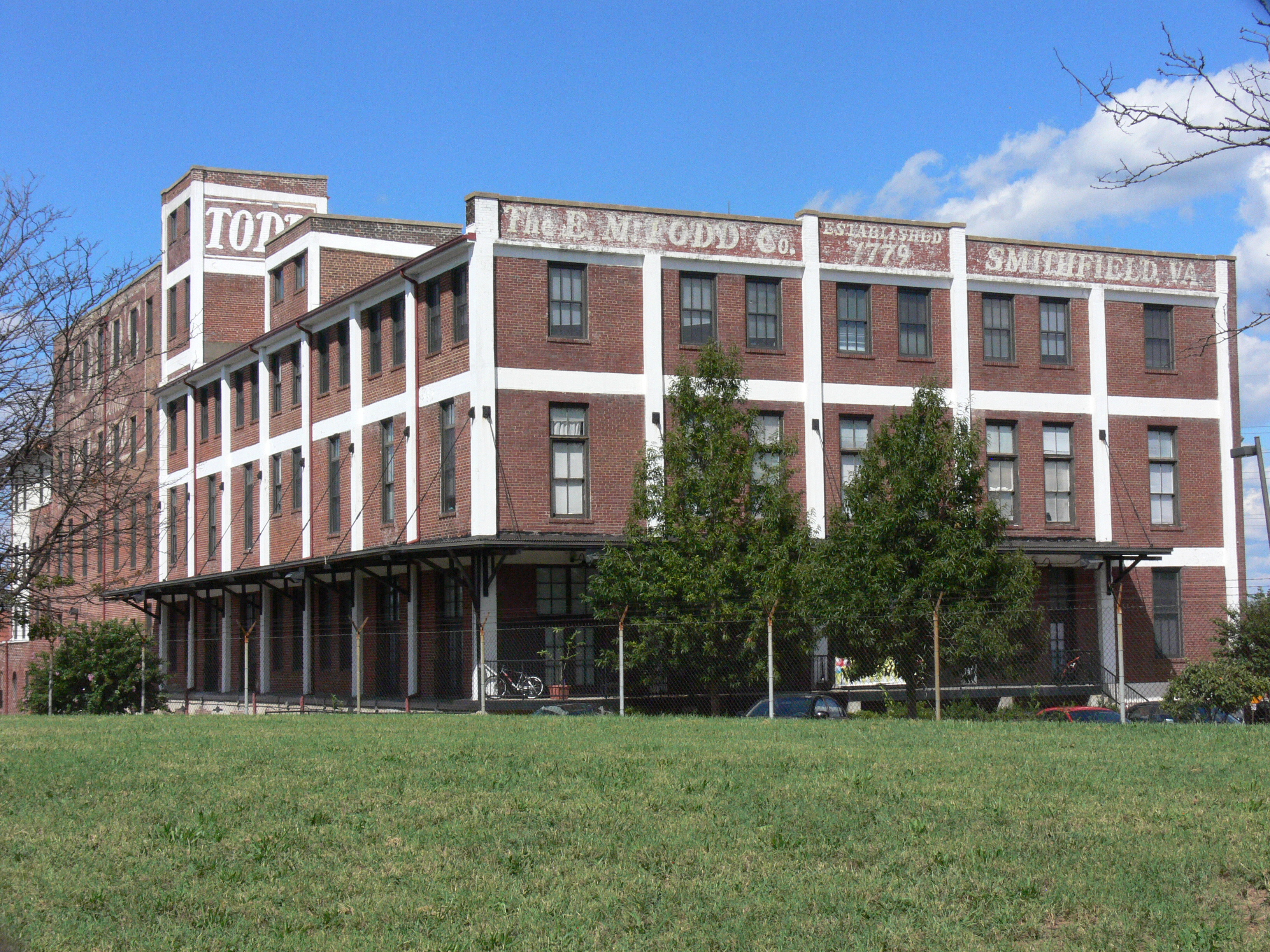 The E. M. Todd Company building, once used for making hams, now loft apartments, in Richmond, Virginia, on the National Register of Historic Places.